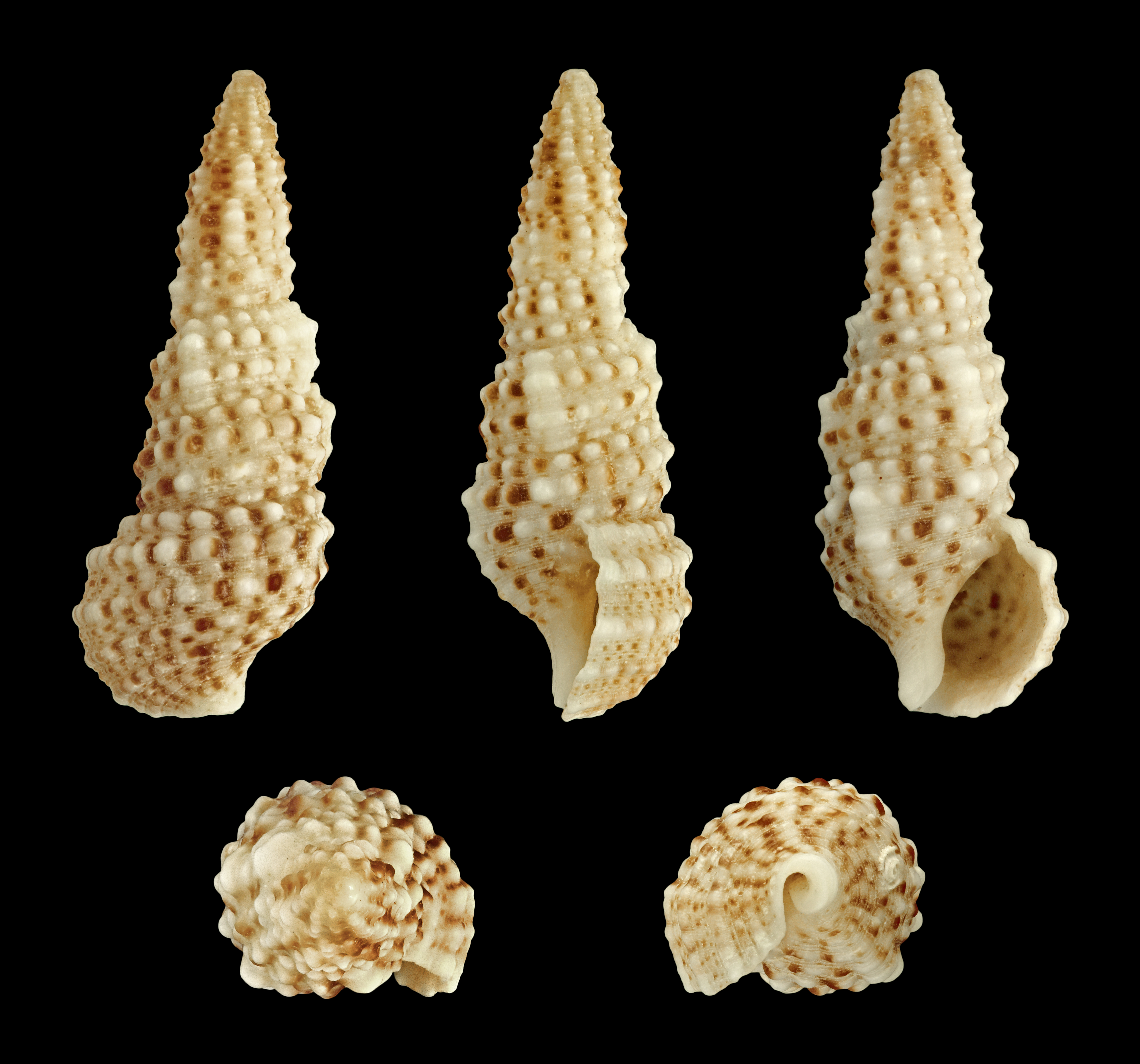 Length 2.0 cm; Originating from from the Red Sea, Gulf of Aqaba, Tabuk Region, Saudi Arabia; Shell of own collection, therefore not geocoded. Dorsal, lateral (right side), ventral, back, and front view.